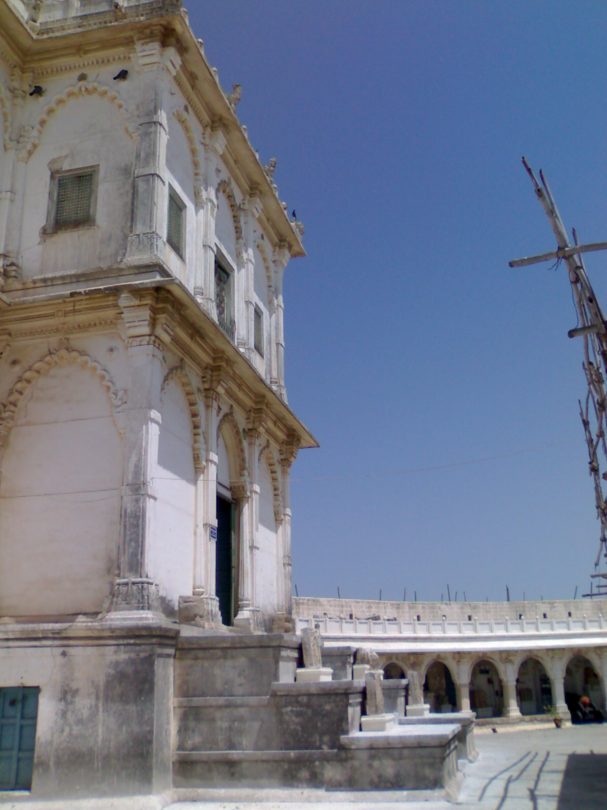 entrance of antique weapons section of Lakhota Fort museum, Jamnagar